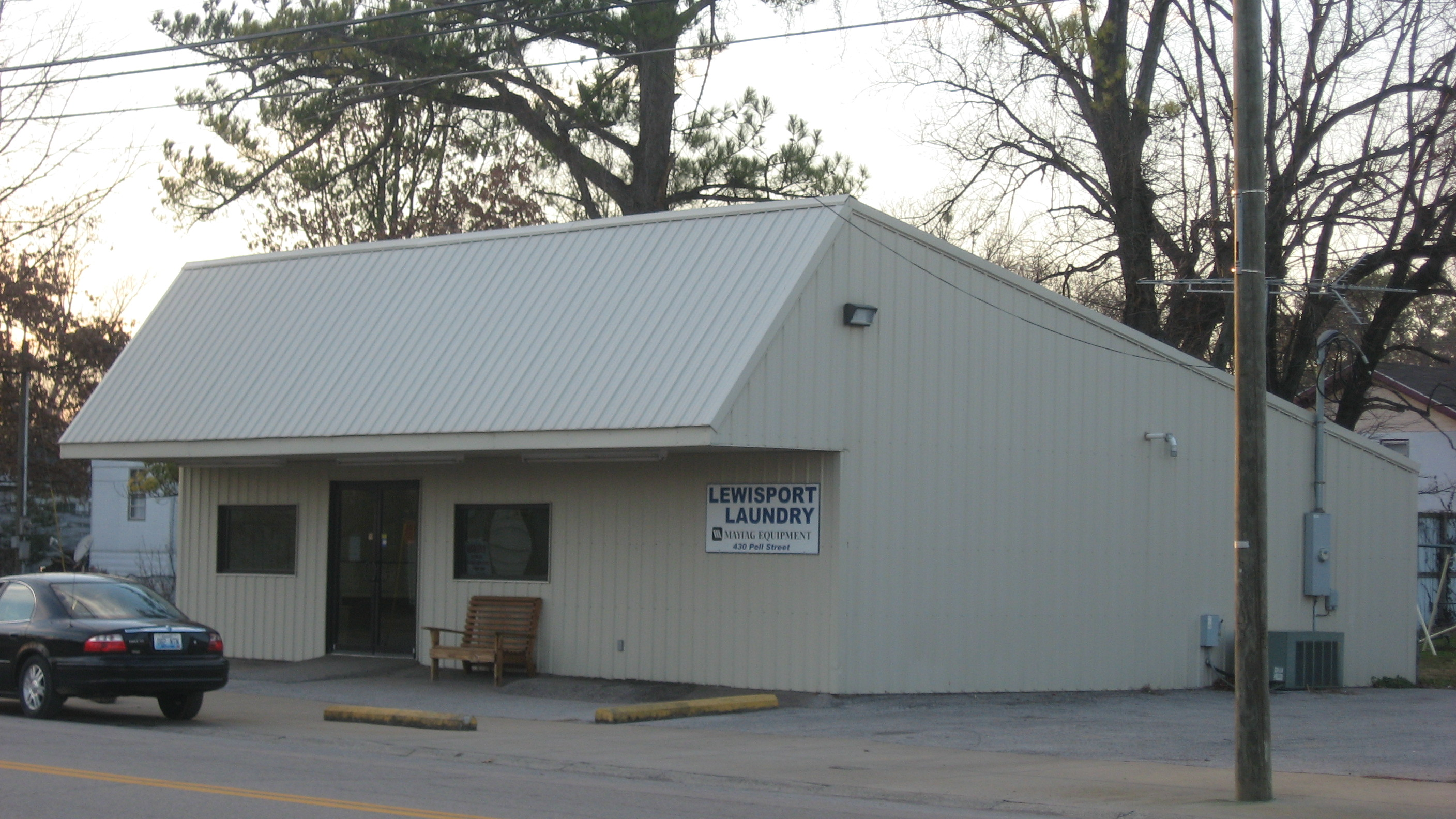 Front and eastern side of the Lewisport Laundry, located at 430 Pell Street (Kentucky Route 334) in Lewisport, Kentucky, United States. It occupies the site of the Joe Pell Building, which was listed on the National Register of Historic Places and has not yet been removed, despite its destruction.